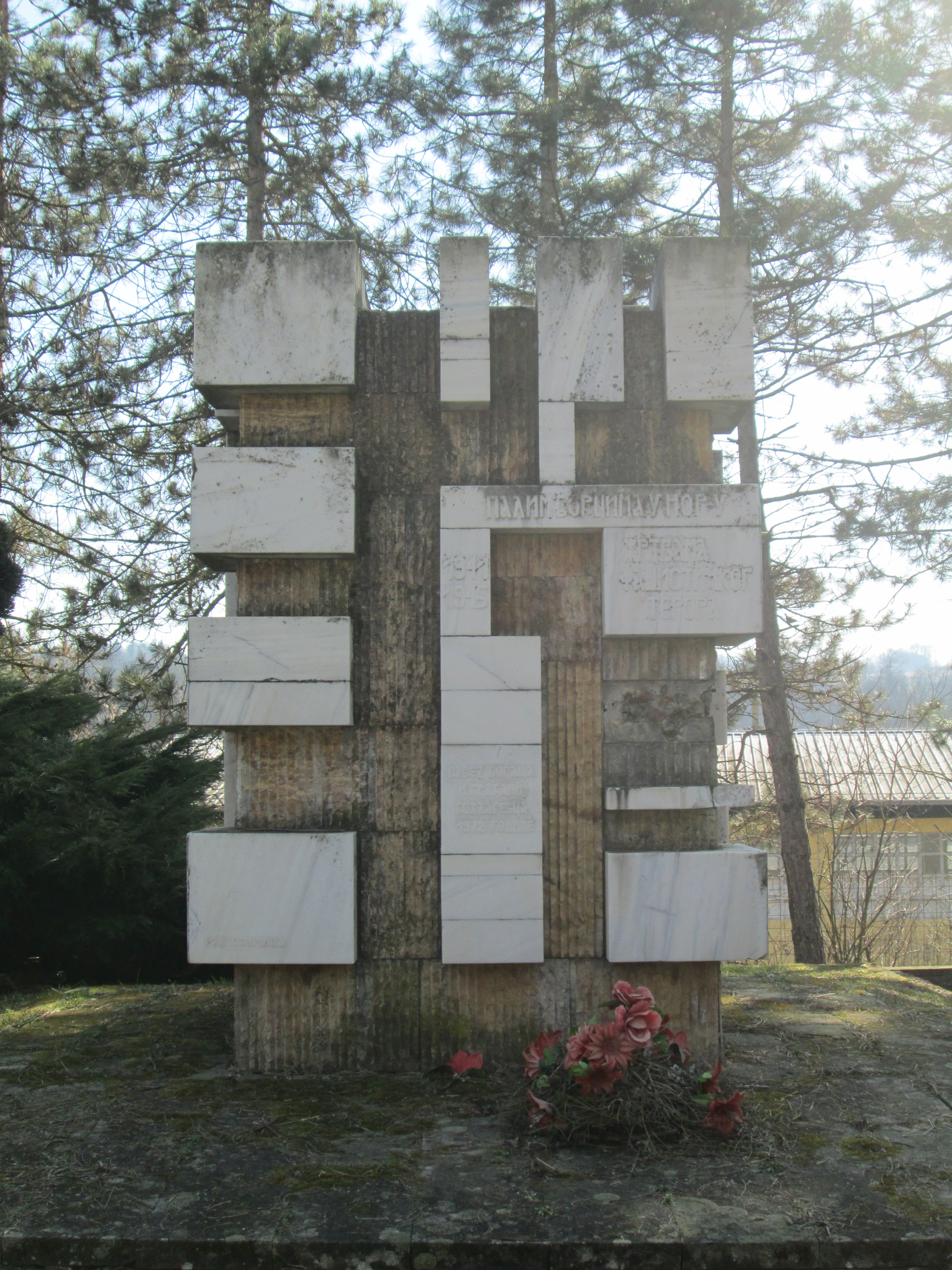 Monument to the fallen soldiers in WW2 (1941-1945), Boždarevac Српски (ћирилица): Споменик палим борцима у НОР-у (1941-1945), Бождаревац